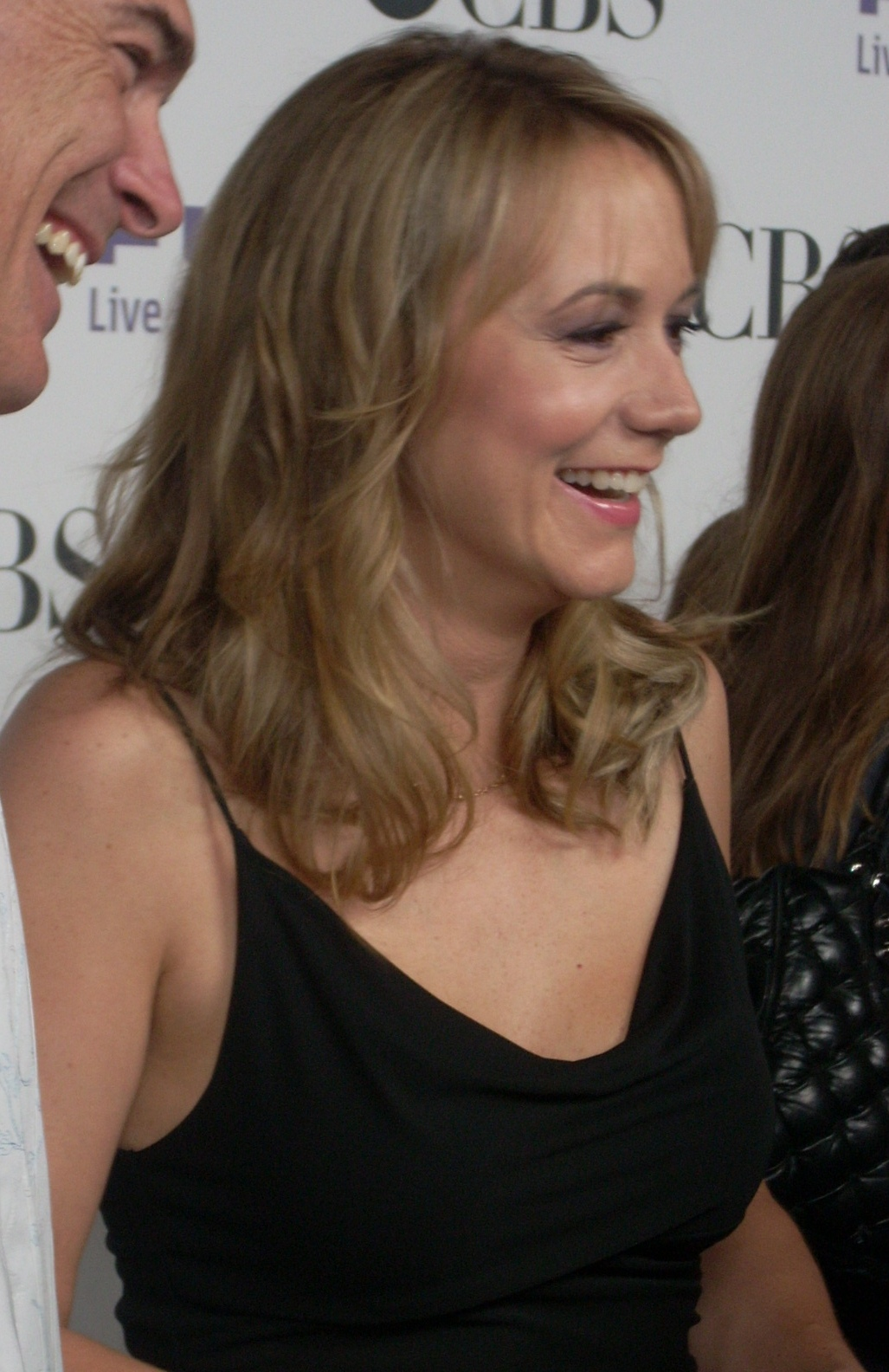 CBS Comedies Premiere Party Sponsored by Flo TV, Area on La Cienega, Los Angeles - Sept. 17, 2008